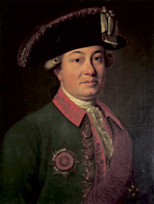 Ivan Lukyanovich Talyzin